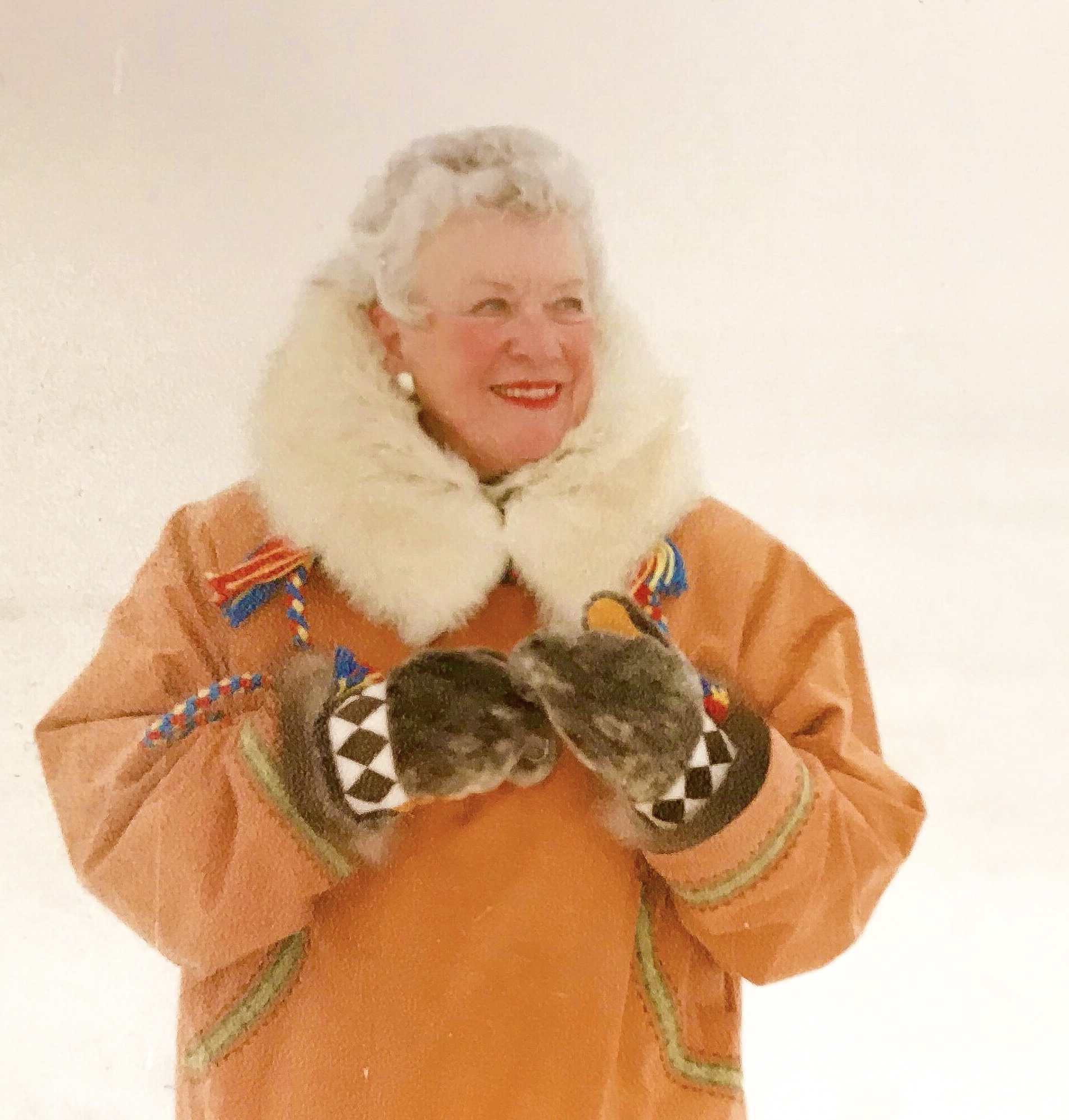 Photo of Jean Craighead George